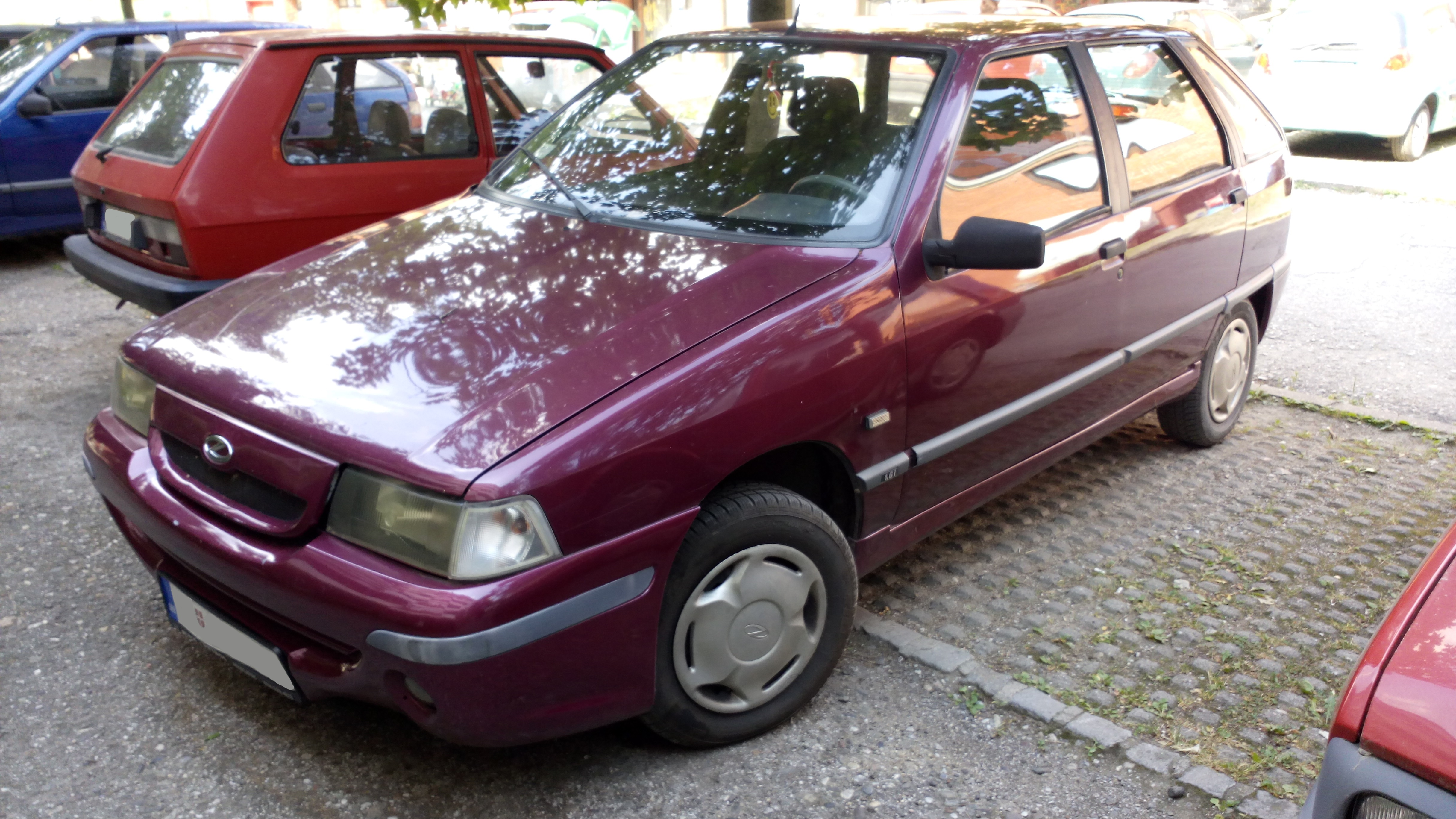 Zastava Florida In 1.6i in Kragujevac